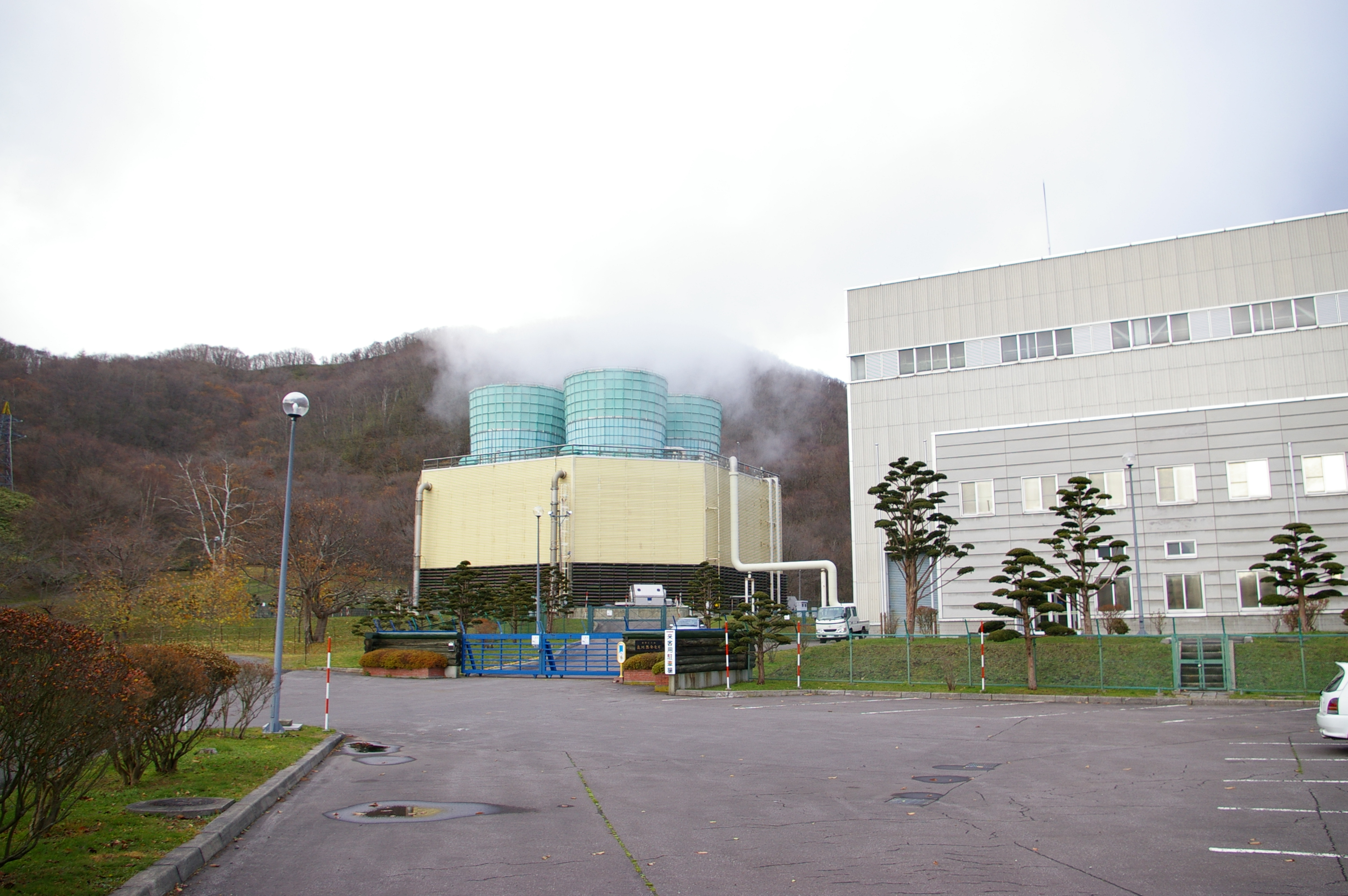 Mori Power Plant, geothermal power plant at Nigorikawa hot spring, Mori, Hokkaido